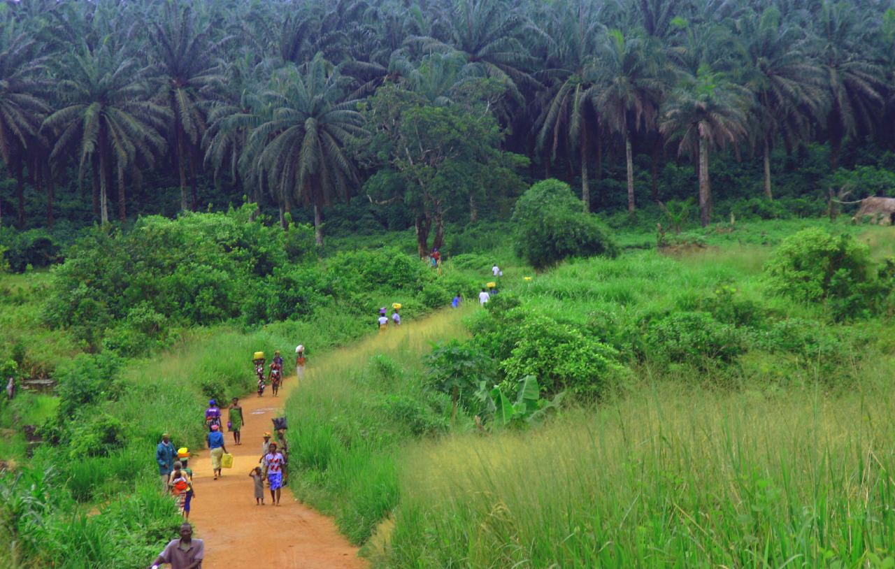 Sierra Leone - The road from Kenema to Kailahun District is just beautiful!